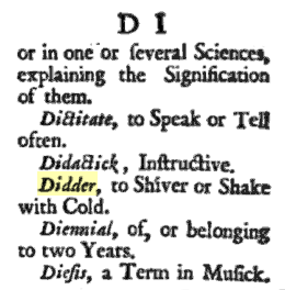 From BLOUNT, Thomas, Glossographia Anglicana Nova: Or, A Dictionary, Interpreting Such Hard Words of whatever Language, as are at present used in the English Tongue, with their Etymologies, Definitions, &c. Also, The Terms of Divinity, Law, Physick, Mathematics, History, Agriculture, Logick, Metaphysicks, Grammar, Poetry, Musick, Heraldry, Architecture, Painting, War, and all other Arts and Sciences are herein explain'd, from the best Modern Authors, as, Sir Isaac Newton, Dr. Harris, Dr. Gregory, Mr. Lock, Mr. Evelyn, Mr. Dryden, Mr. Blunt, &c., London, 1707.